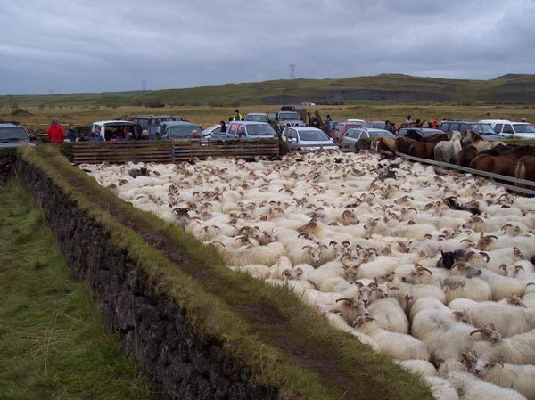 A flock of sheep in Iceland, driven from the highlands down to a sorting pen. Skaftholtsréttir, the sorting pen. Taken in the fall of 2004.